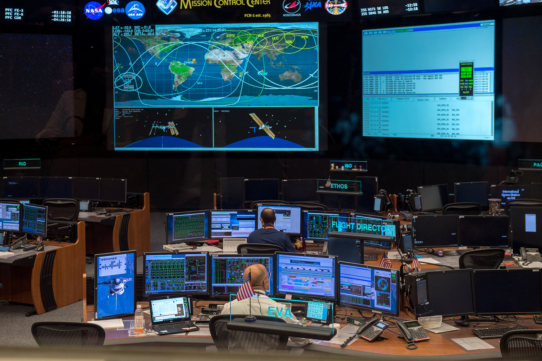 08.19 「同慶之旅」總統參訪美國國家航空暨太空總署（NASA）所屬詹森太空中心（Johnson Space Center）